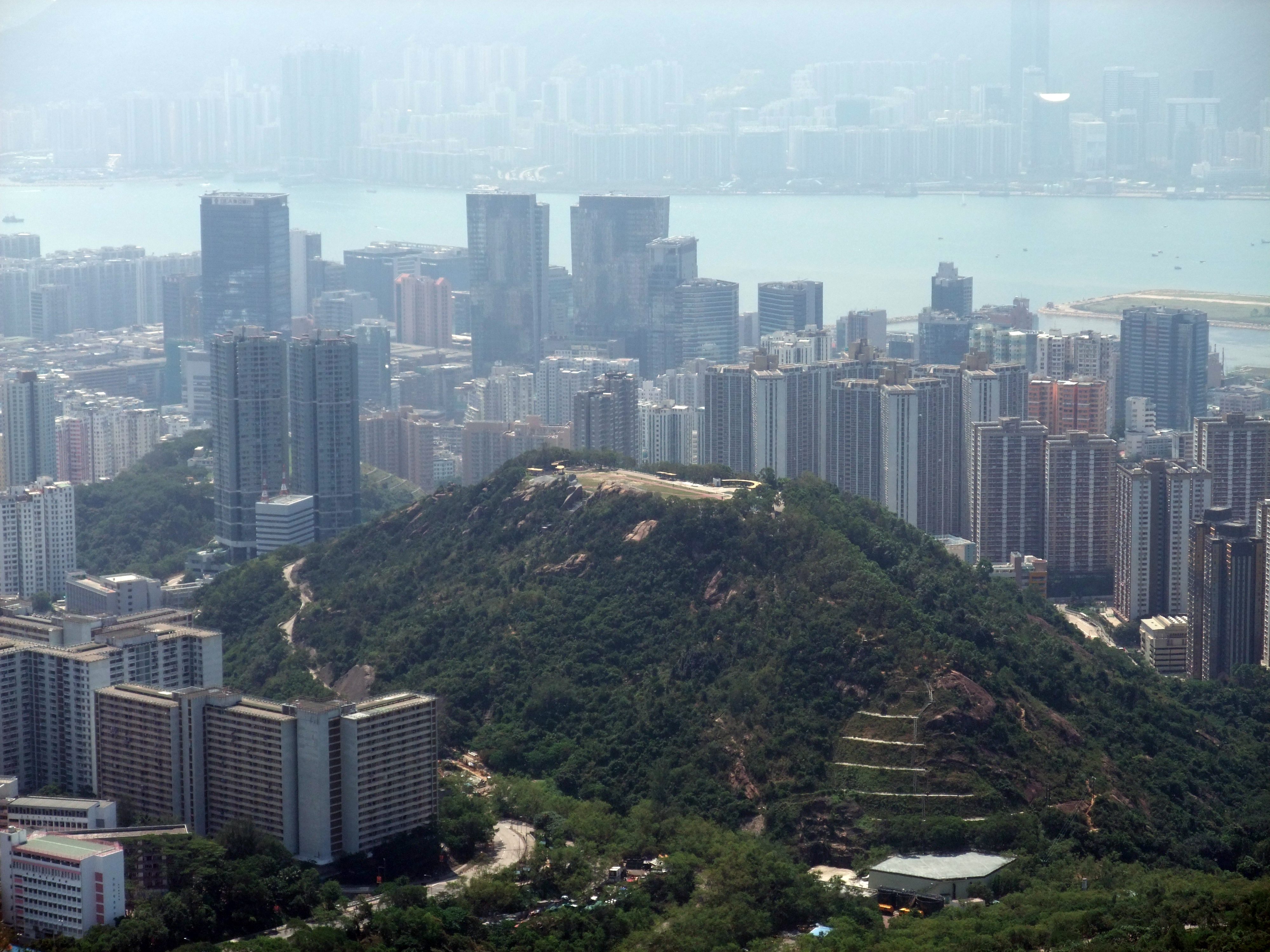 Photo of Shun Wun Shan